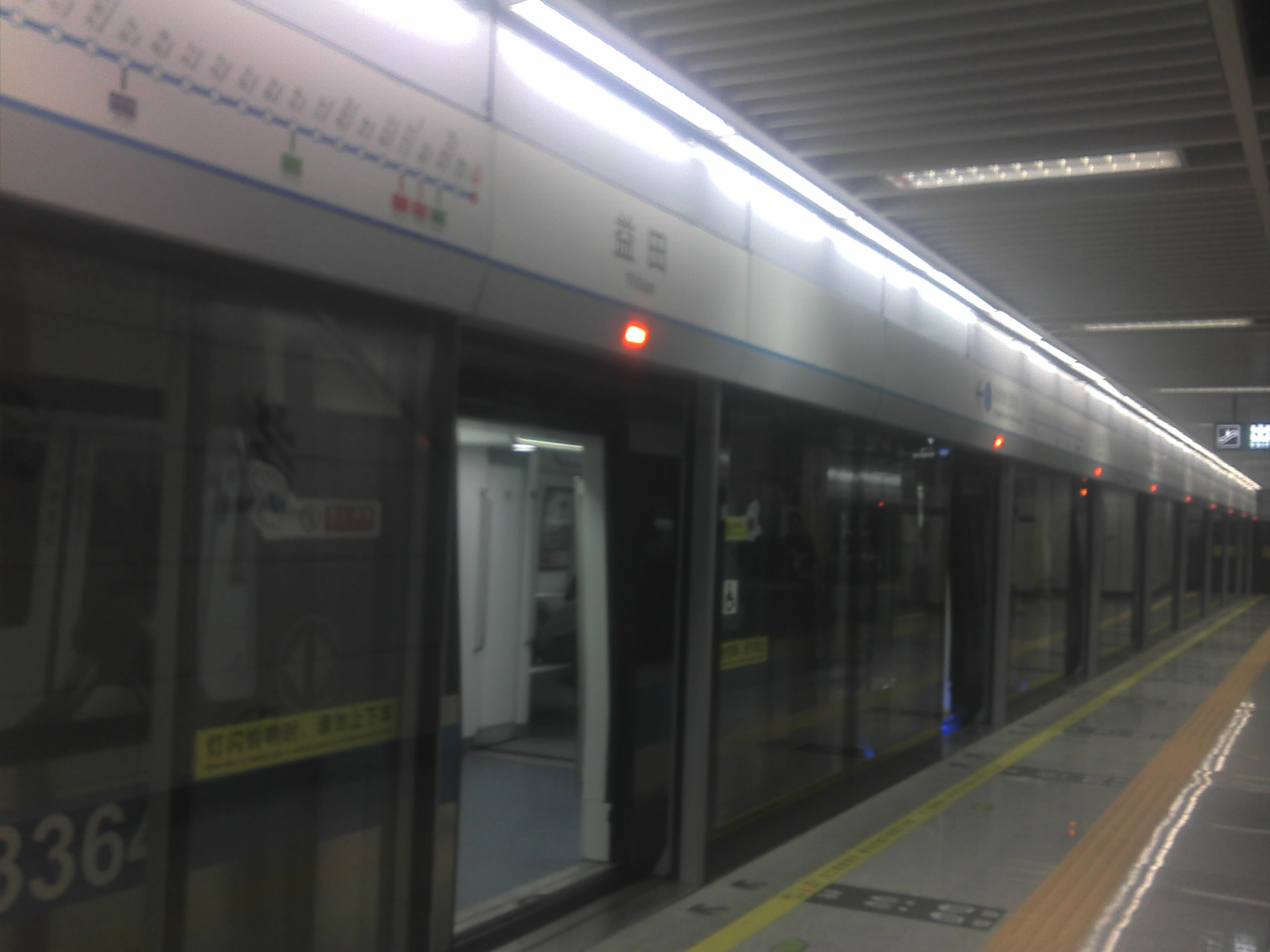 This photo was taken as Nov 26, 2011.